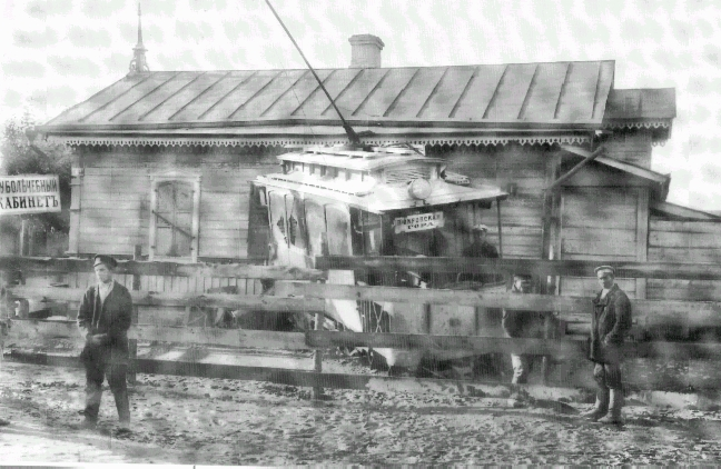 Tram accident in Smolensk, 1910.